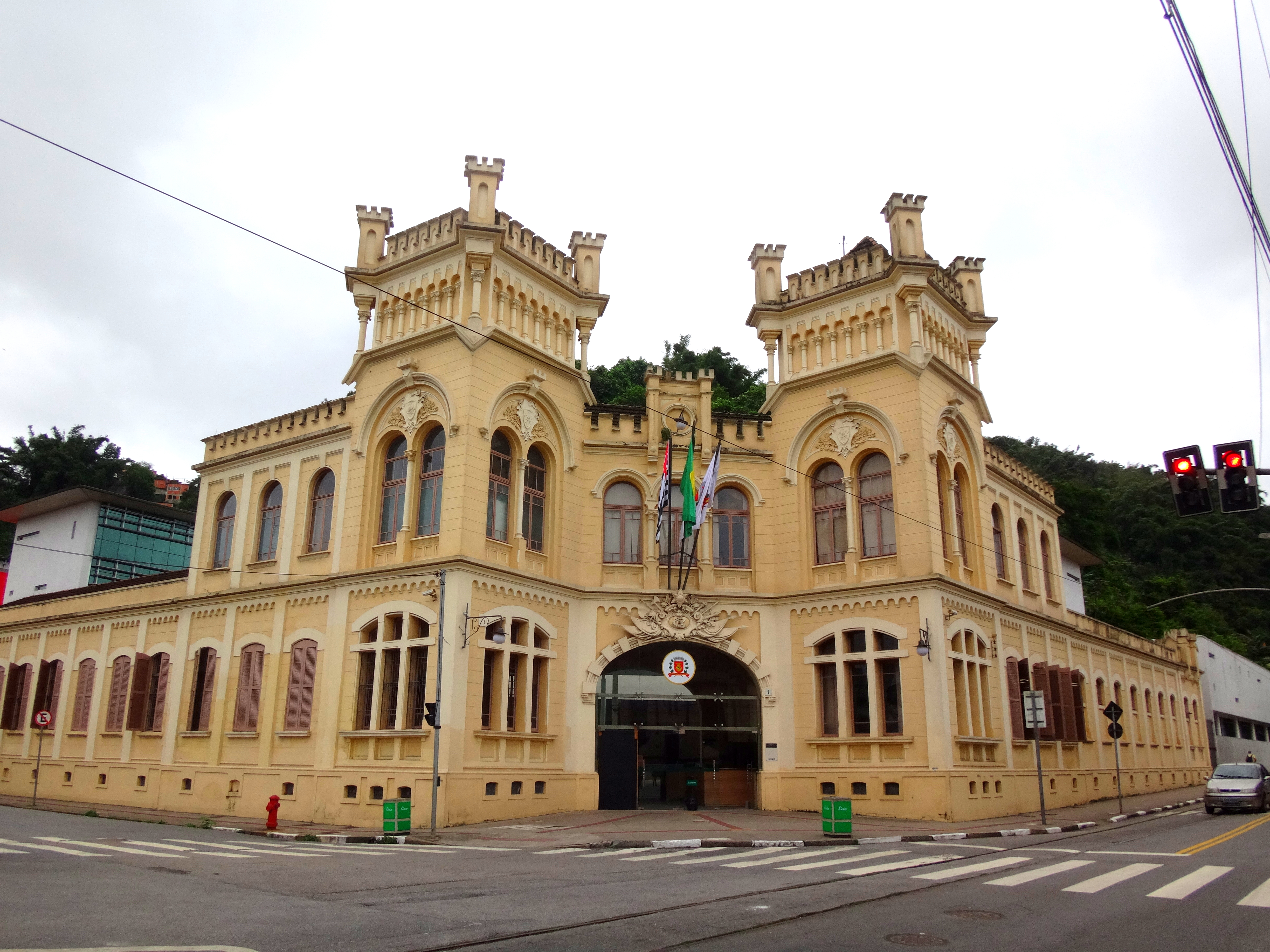 City Council of Santos, São Paulo